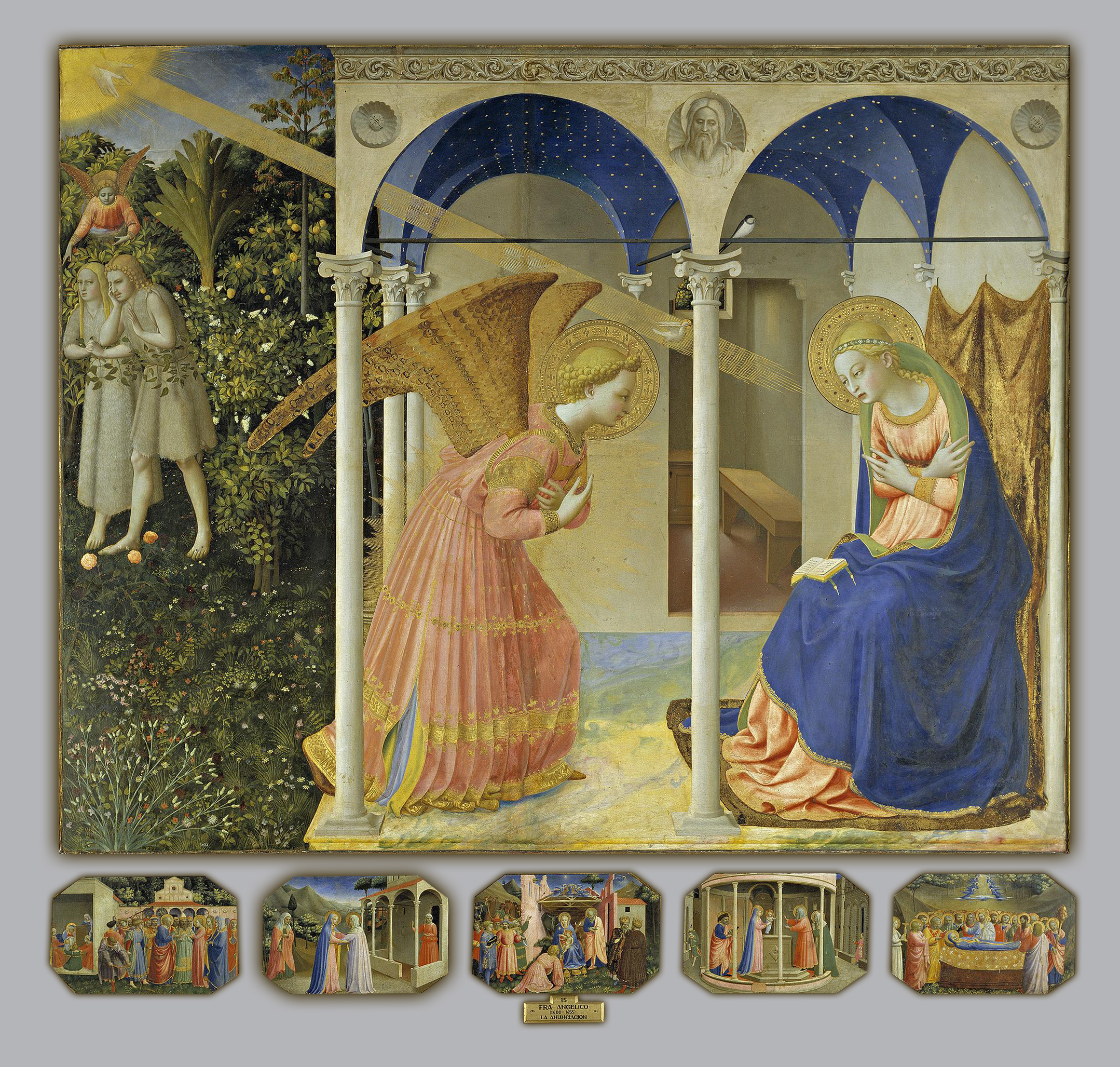 On the left, Adam and Eve are being expelled from Paradise. The predella has scenes from the life of the Virgin; Mary’s Birth, Her Wedding with Saint Joseph, Mary’s Visit to her cousin Saint Elisabeth, the Birth of the Christ Child, the Presentation of Jesus in the Temple and the Dormition of the Virgin with Christ receiving her soul